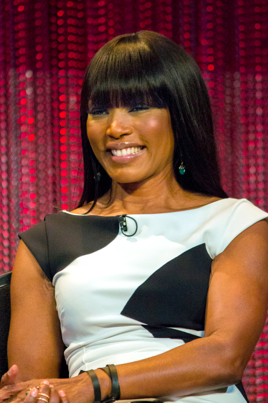 Angela Bassett at PaleyFest 2014 for the TV show "American Horror Story: Coven"